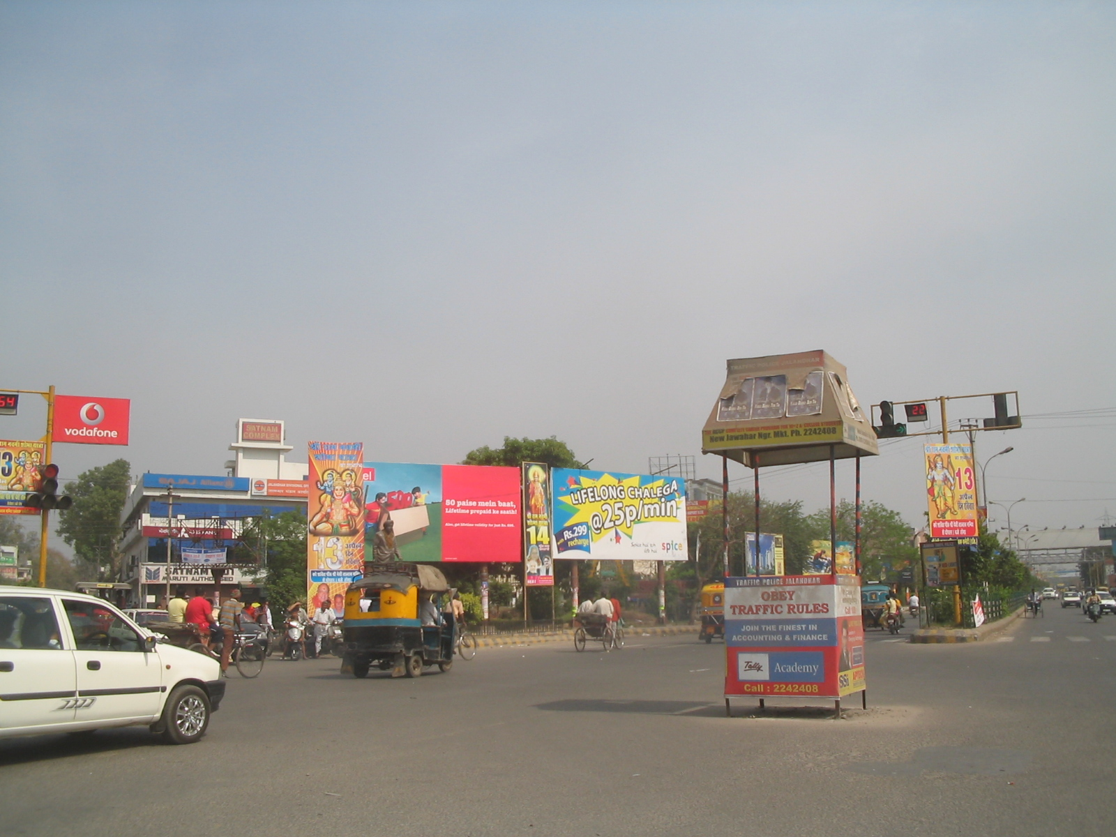 The old roundabout at the popular BMC Chowk of Jalandhar City has been replaced by traffic signals. It is marked by a statue of a politician overlooking the crossing.